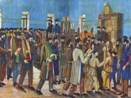 Prayers in the Synagoge